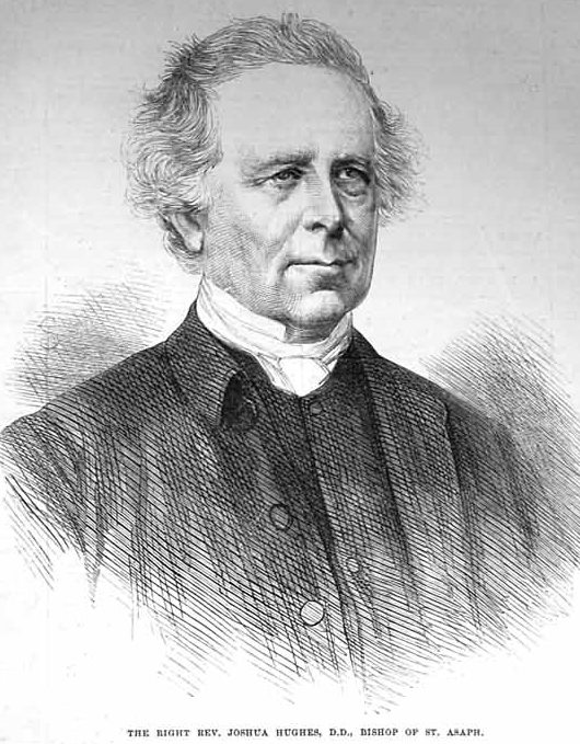 The Rt. Rev. Joshua Hughes DD, Bishop of St Asaph: illustration from The Illustrated London News of 30 April 1870